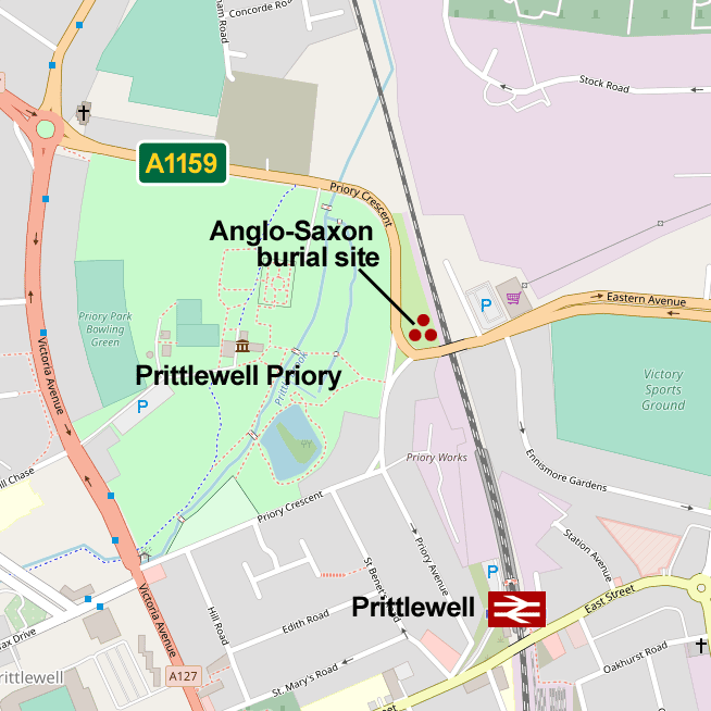 Map of the Anglo-Saxon burial in Prittlewell, Southend-on-Sea, Essex This map may be incomplete, and may contain errors. Don't rely solely on it for navigation.